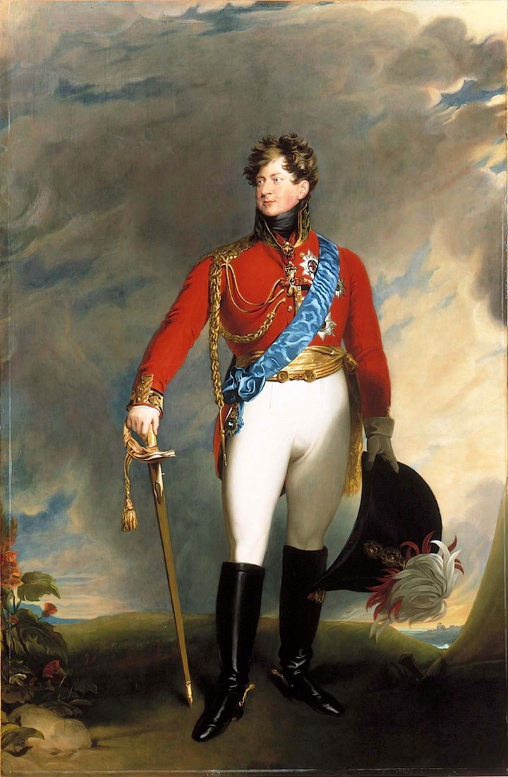 George, prince of Wales and regent of the United Kingdom